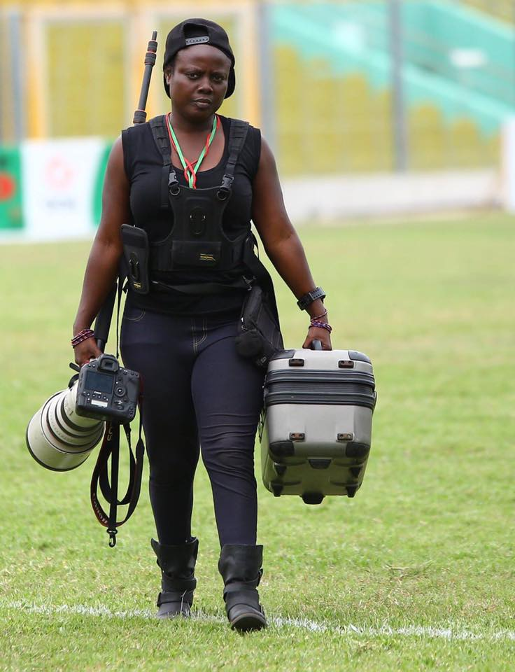 After Covering a game